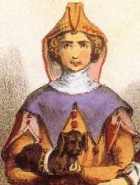 Joan I of Champagne and Navarre